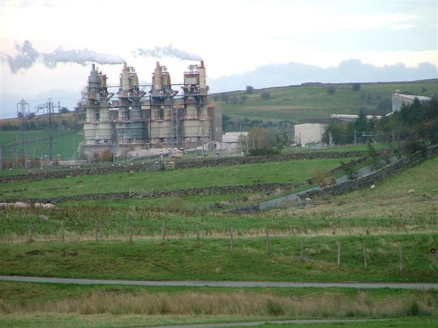 Hardendale Lime Works. A set of four counter-current regenerative lime-kilns.